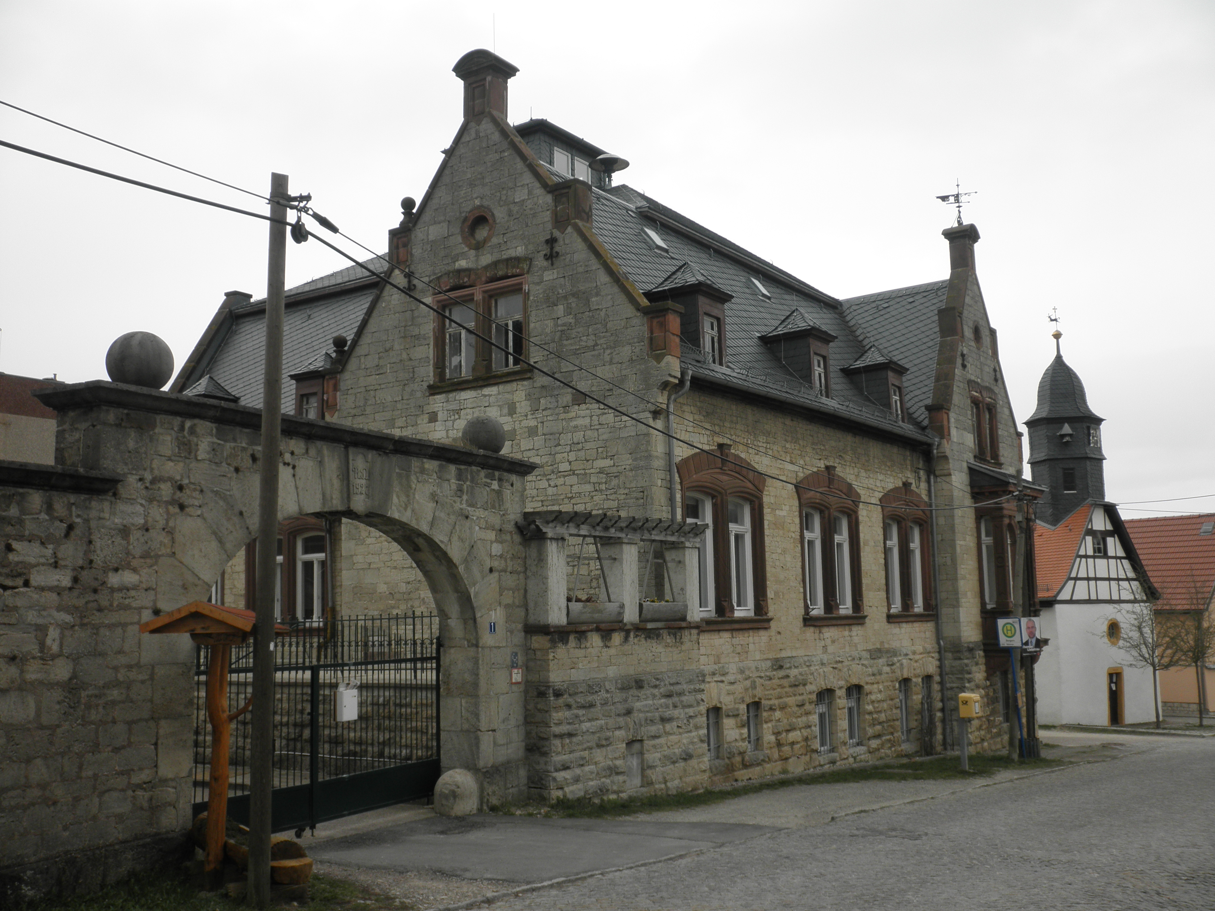 Manor House in Bergern (Bad Berka) in Thuringia